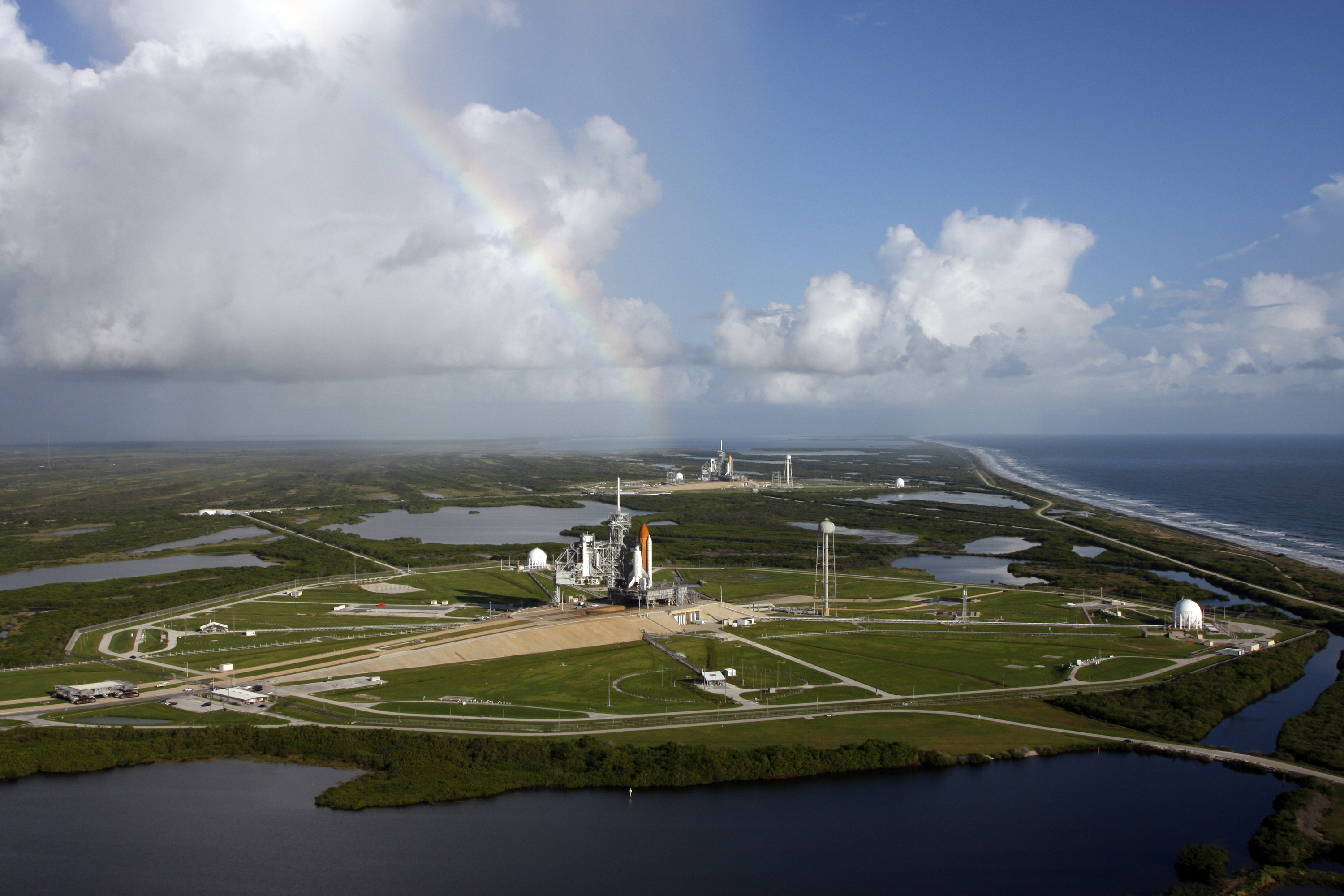 With a rainbow serving as a backdrop in the sky, space shuttle Atlantis (foreground) sits on Launch Pad A and Endeavour on Launch Pad B in this September 2008 photograph. This was the first time since July 2001 that two shuttles were on the launch pads at the same time at the Kennedy Space Center.